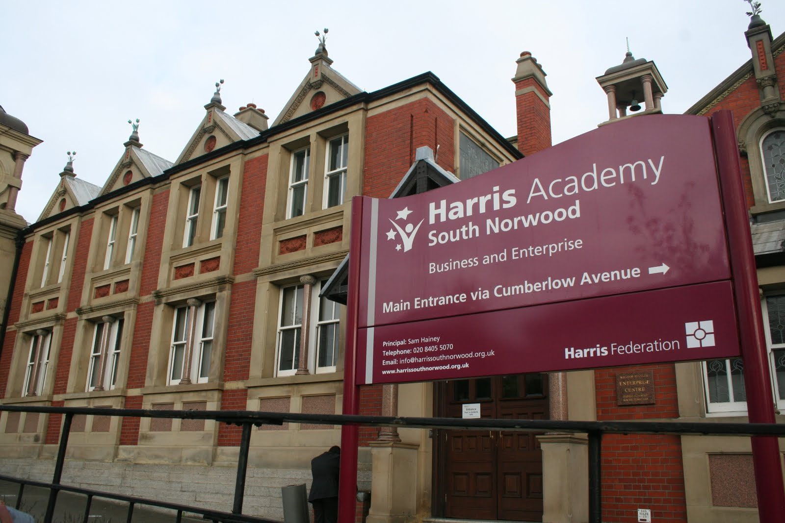 Picture of Harris Academy and it's Historical building.